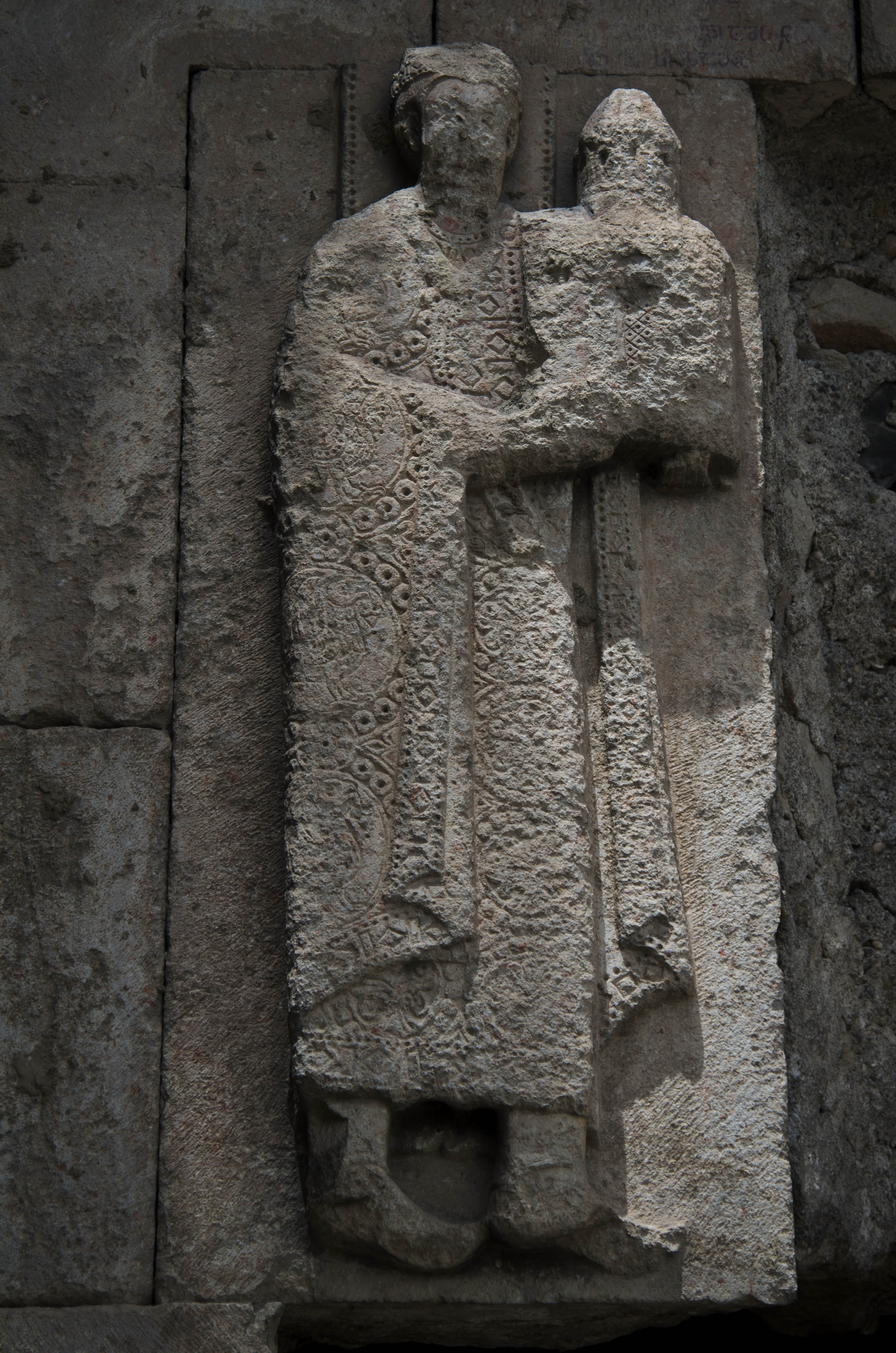 closeup of a wise man with awesome duds